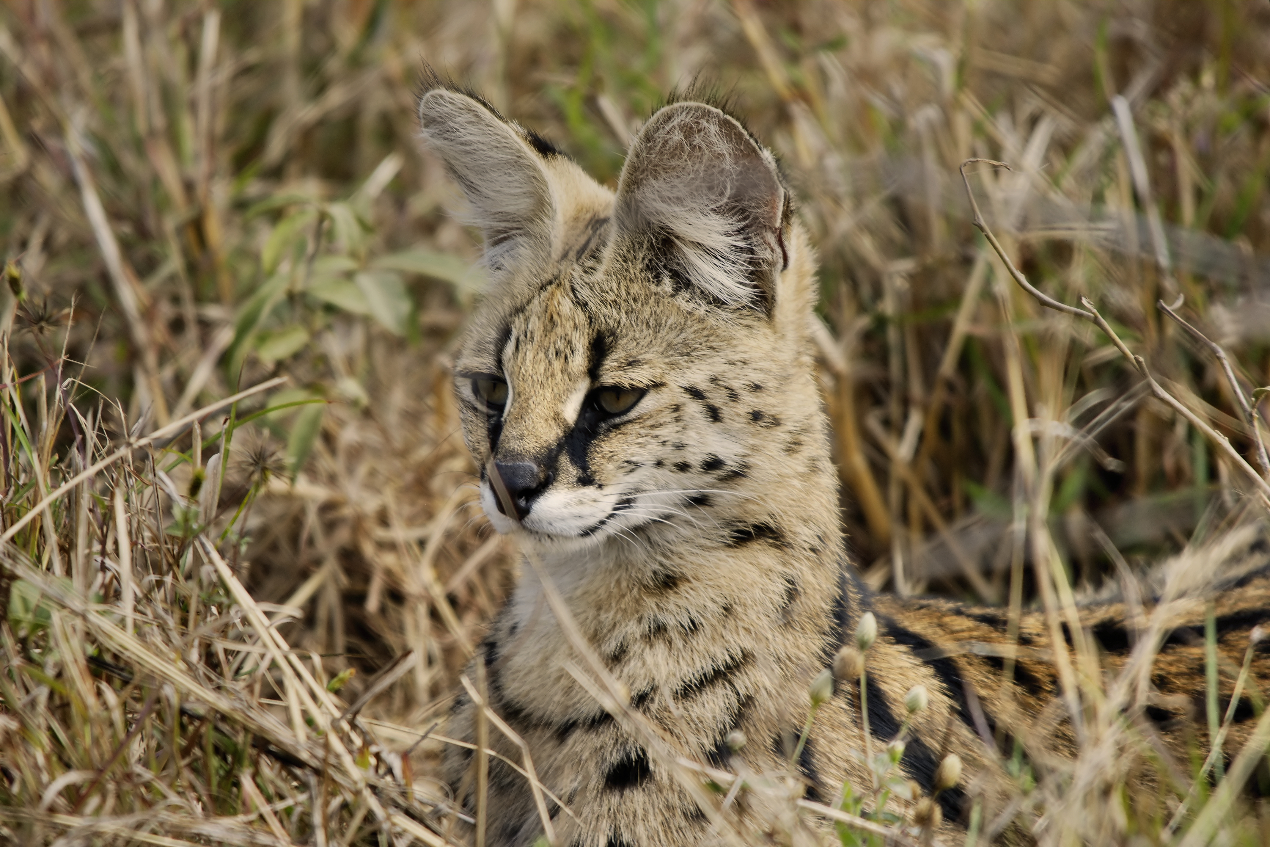 Serval at Mundawanga, Chilanga, Zambia.